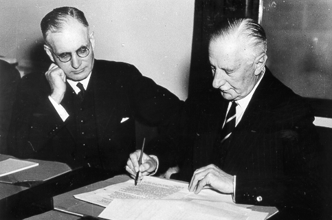 Governer General of Australia Lord Gowrie signing the declaration of war against Japan with Prime Minister John Curtin looking on. (World War Two)